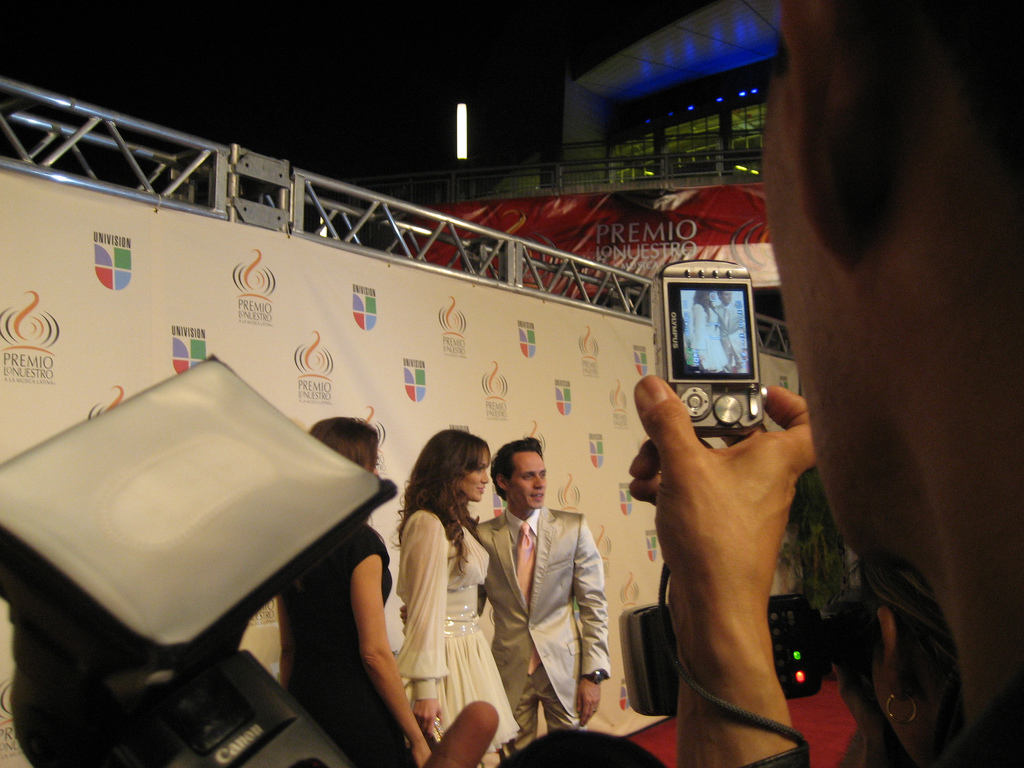 Jennifer Lopez & Marc Anthony, Lo Nuestro Awards, Miami, FL